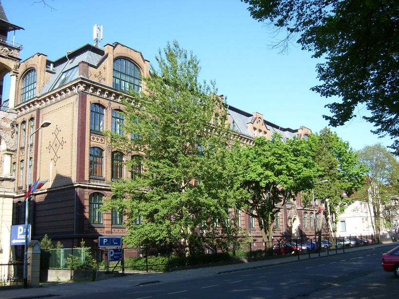 Building of Liceum Ogolnoksztalcace (high school) in Zgorzelec (May 2008)